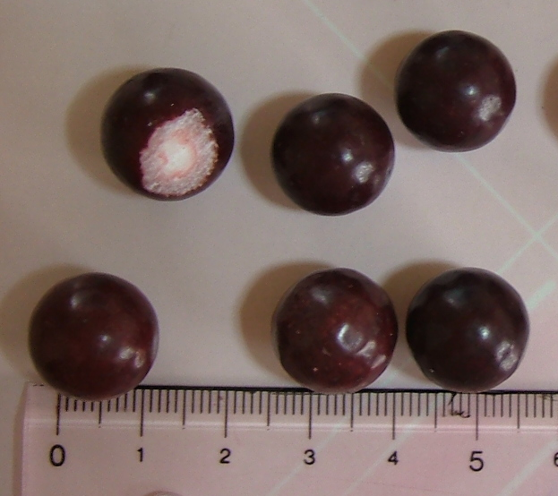 Photo of aniseed balls. I took this photo with a digital camera on 3rd January 2006.